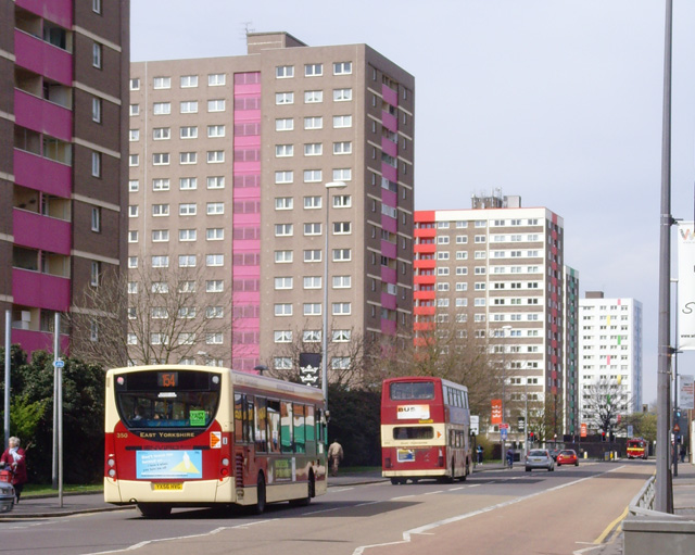 Anlaby Road, Hull Looking west from opposite the junction with Pease Street